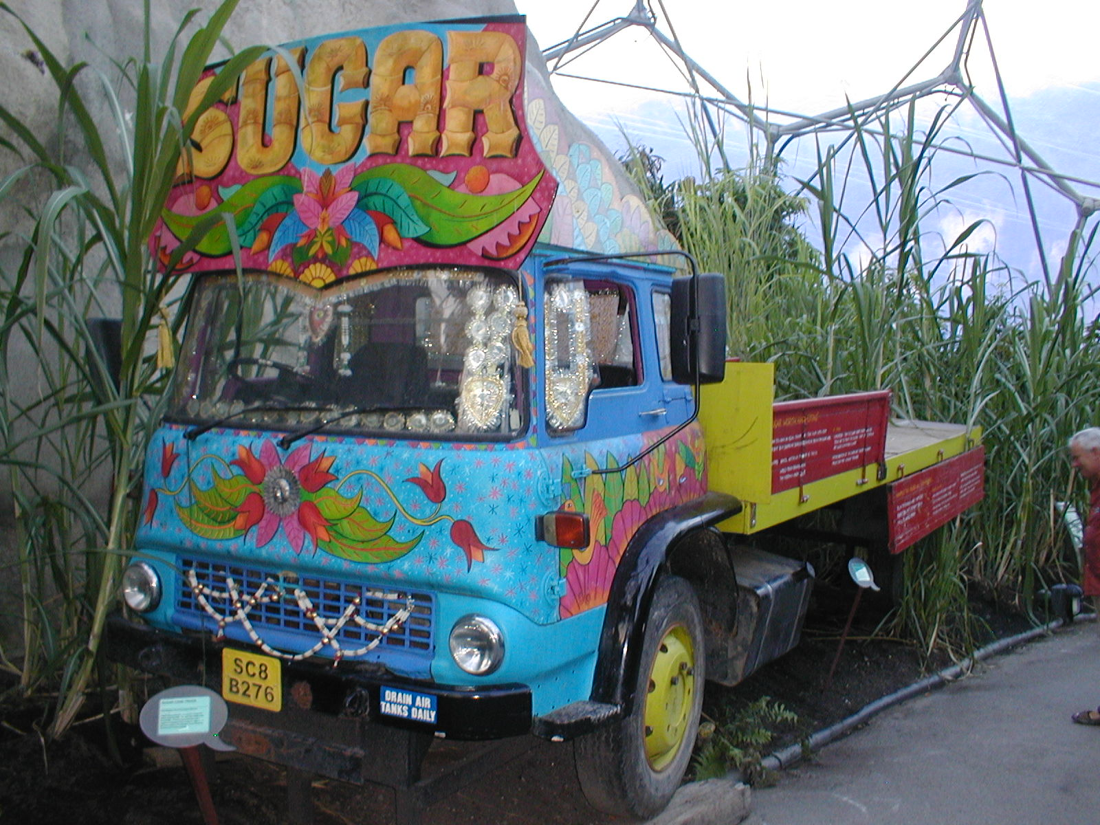 Eden Project, The "sugar lorry"